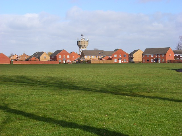 Berinsfield Houses towards the northeast of the modern village. The side roads in the eastern half of the village are named after tributaries of the Thames (except that they mis-spelt Loddon).